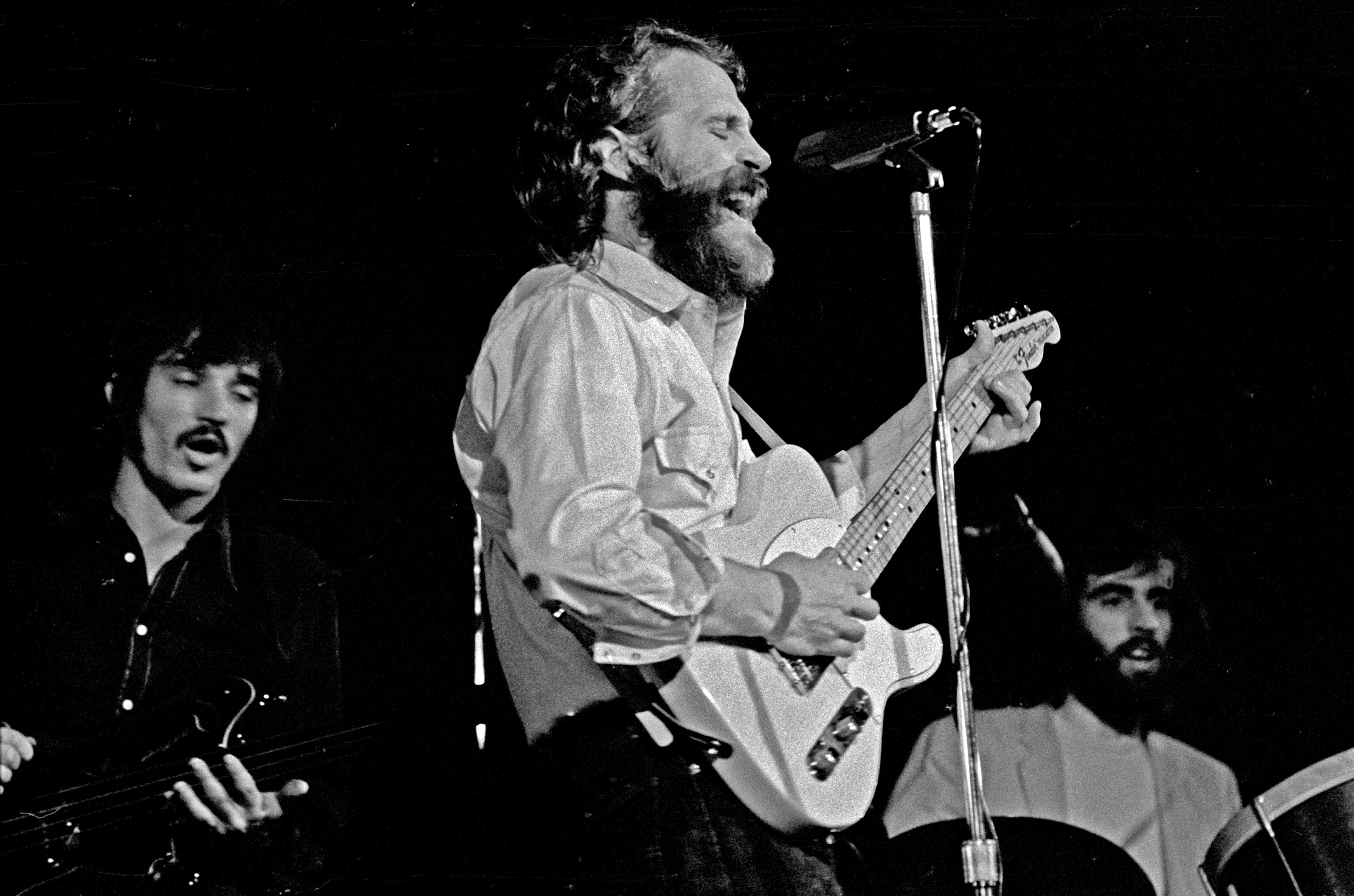 The Band, Hamburg, May 1971. Left to right: Rick Danko, Levon Helm and Richard Manuel.